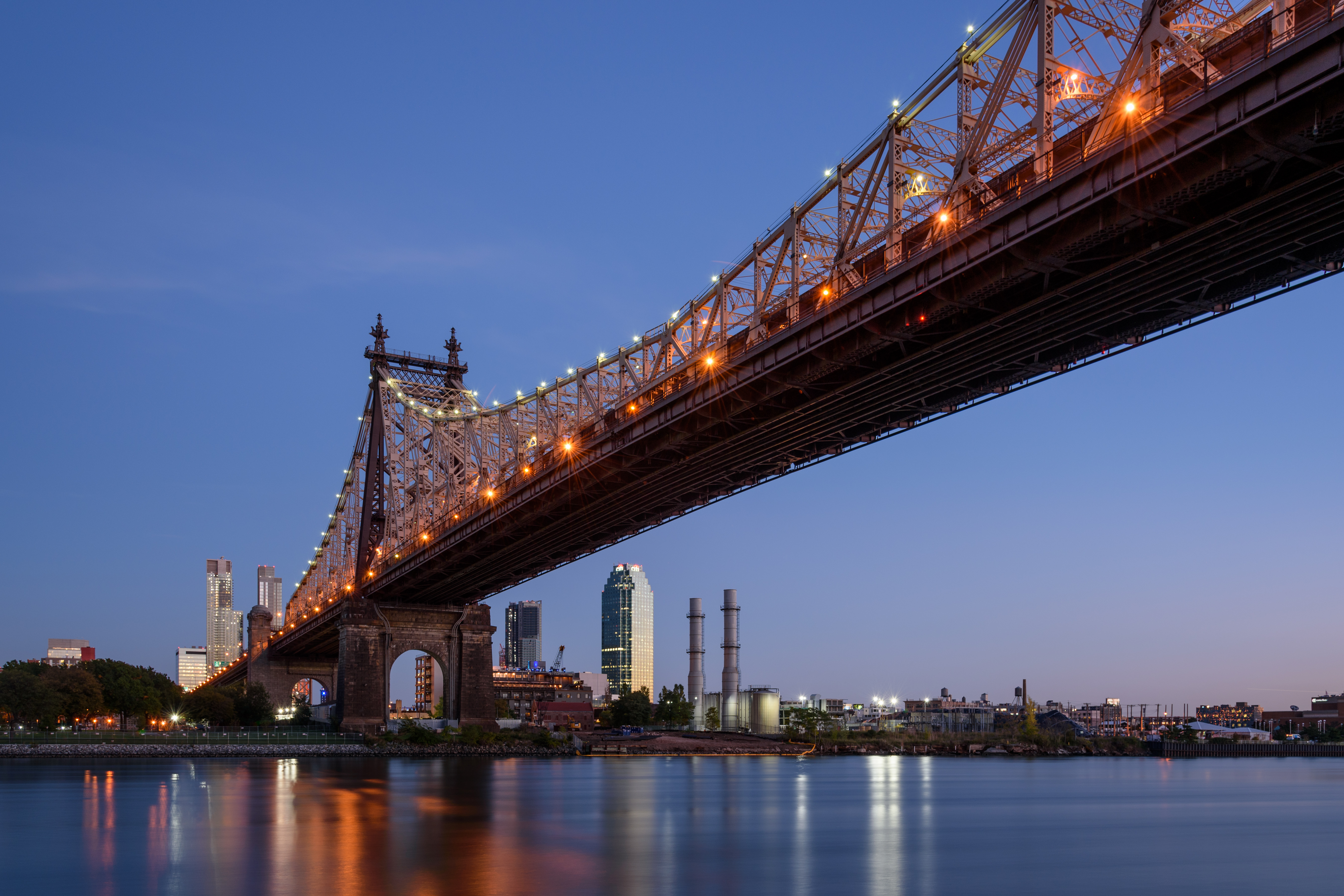 Queensboro Bridge, viewed from Roosevelt Island, New York City.